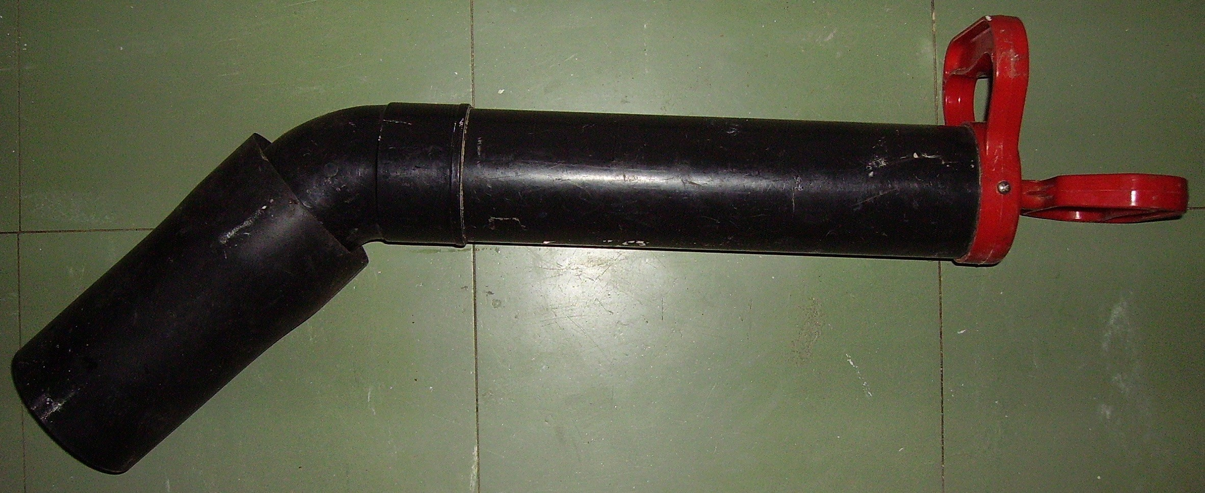 Professional pump-action drain cleaner. Two end pieces: short or long (photo). Works in both pressure and suction. Resistant to domestic drain cleaning products. Length ≈75 cm.